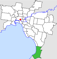 Location of the City of Frankston within Melbourne.